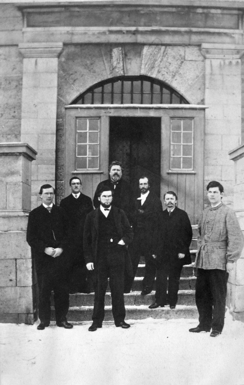 Photograph, St. Alban's raiders at the jail door, Montreal, QC, 1864, William Notman (1826-1891), Silver salts on paper - Albumen process - 8 x 5 cm